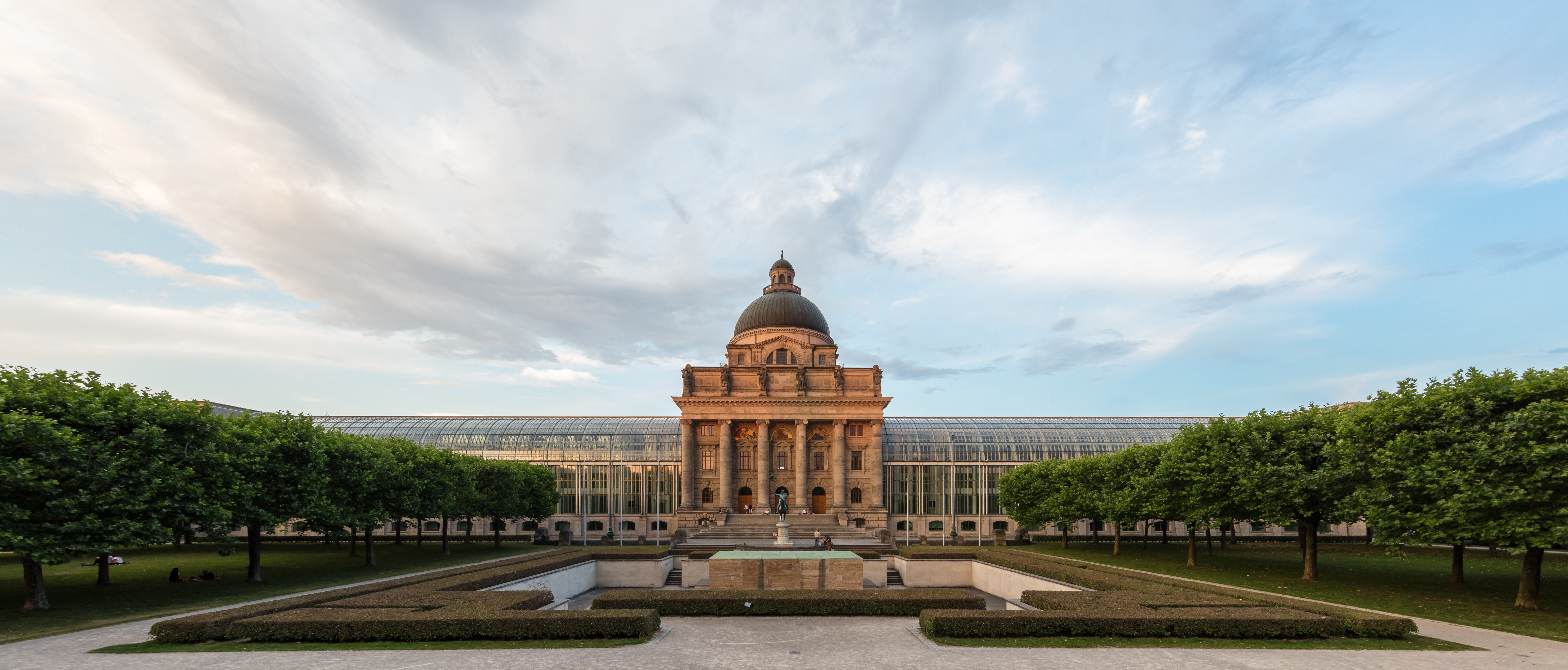 Frontal view of the Bayerische Staatskanzlei (Bavarian State Chancellery), Hofgarten, Munich, Germany. The institution is serving as the executive office of the Minister-President as head of government. The State Chancellery is represented by Bavarian missions in the German capital Berlin and to the European Union in Brussels.